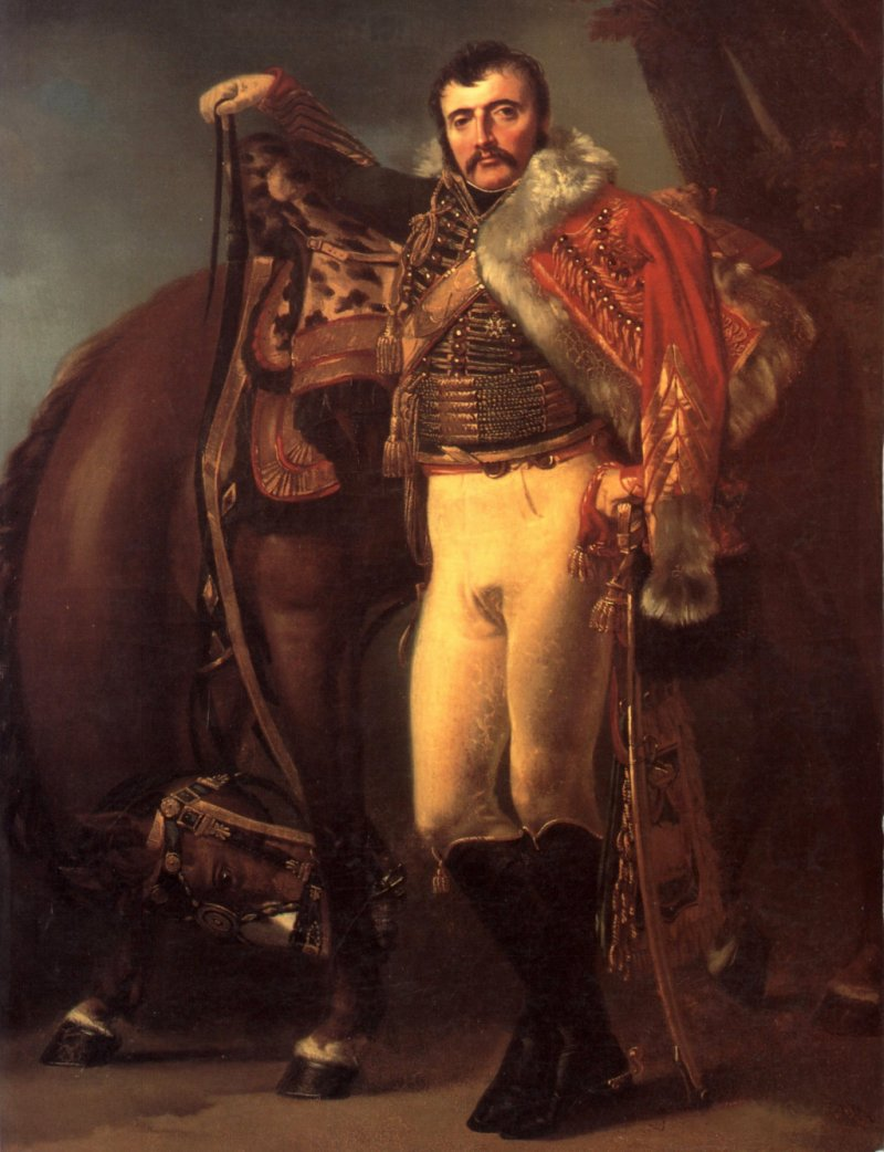 Colonel Count Claude Etienne Guyot (1768-1837) portrayed while he was a colonel in the Grande Armée